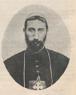 Pierre Aziz, Chaldean bishop of Salamas